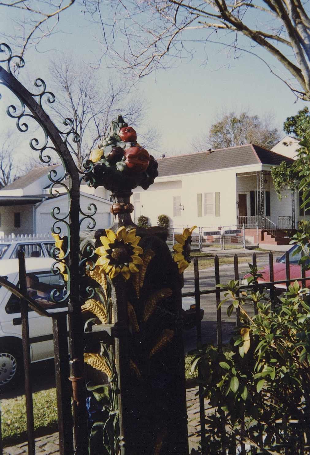 New Orleans: Metalwork fence of Dufour Plassan House, Esplanade Ridge.